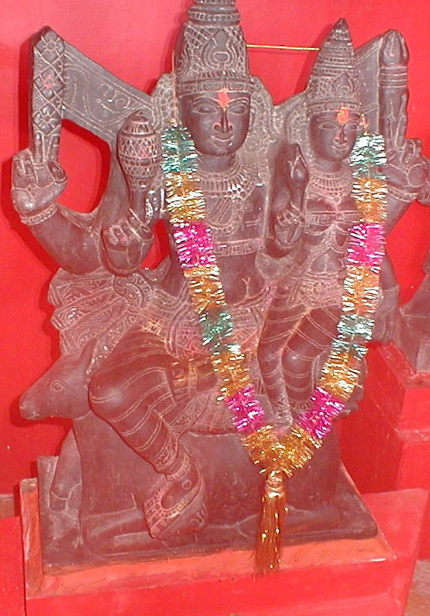 Surendrapuri Temple's Navagraha Temples, Mangala with Jwalini